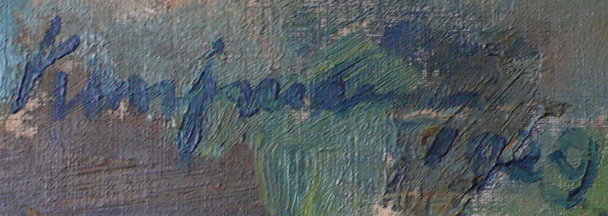 Signature on a painting by Paul Kaufmann, born 1896 in Nümbrecht